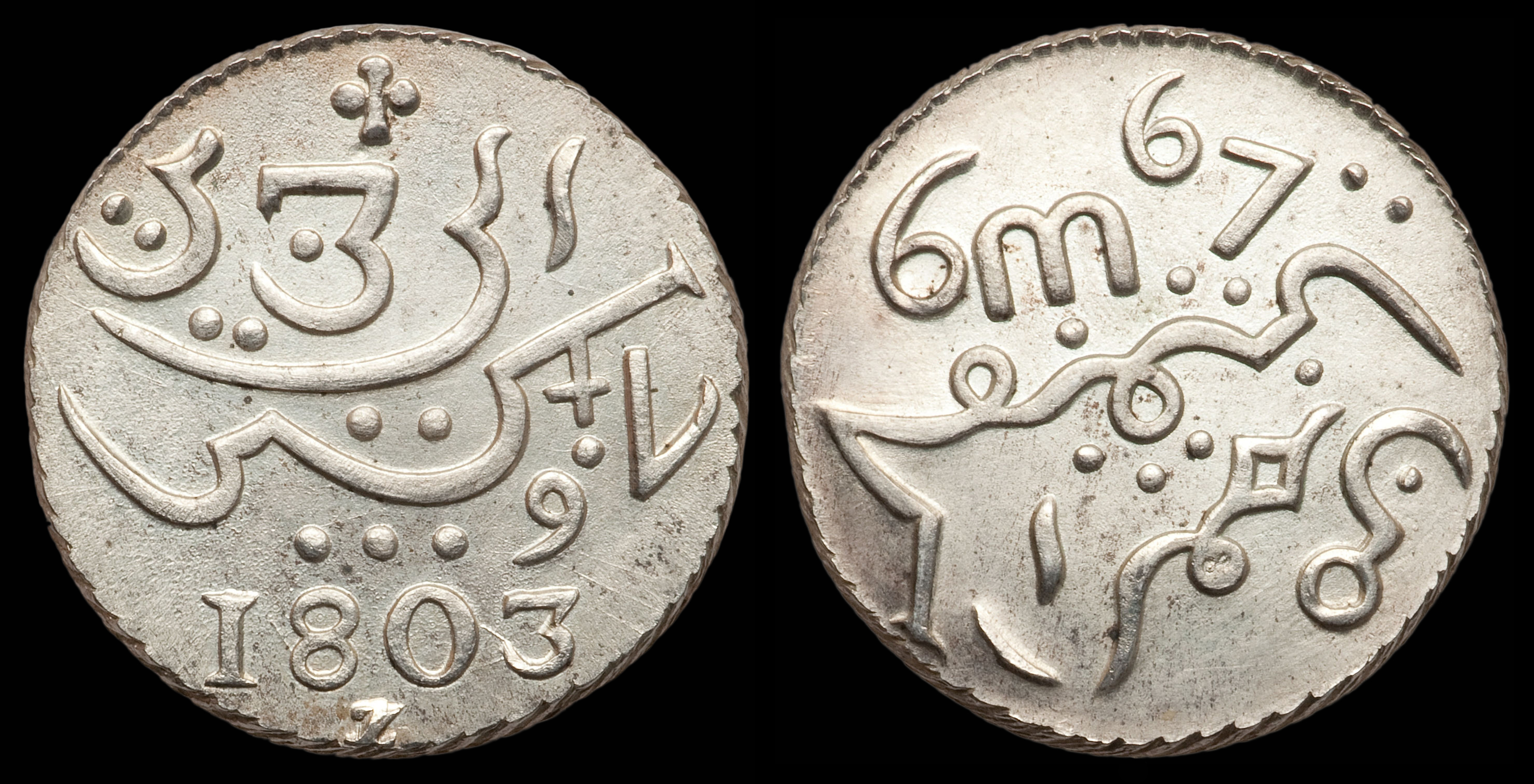 Netherlands East Indies Java Rupee (1803-Z), struck by the Java Mint, Netherlands Indies. Contains roughly silver (0.7920 fine), 13.15g (0.3348oz) (3010-23050)